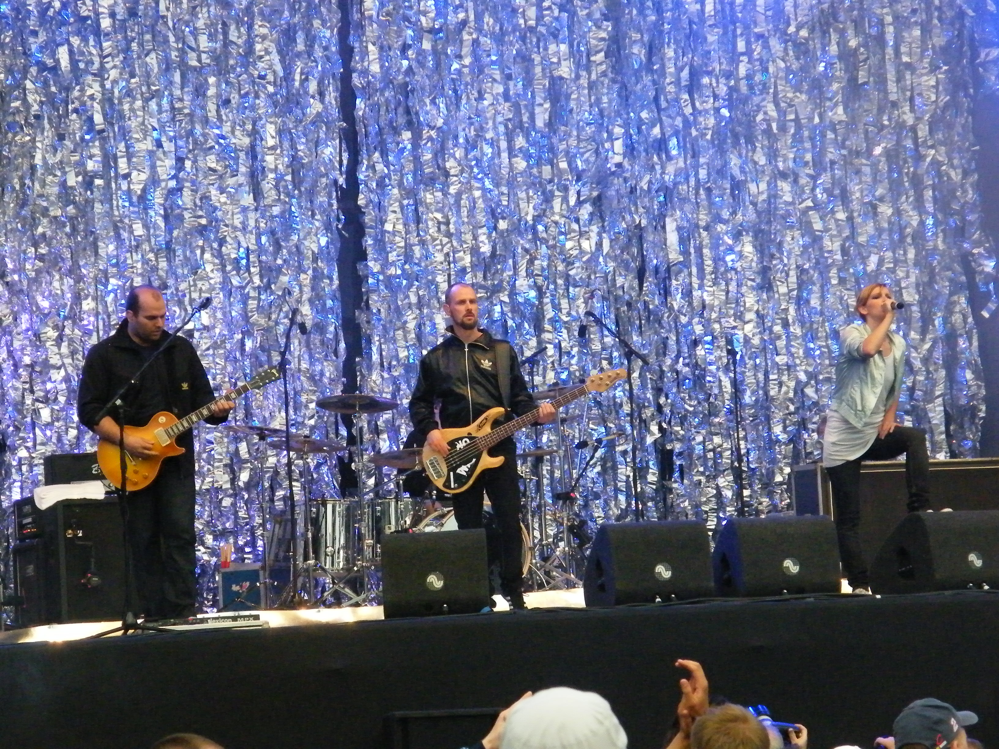 Guano Apes in concert at the Bospop2009 musicfestival in Weert the Netherlands